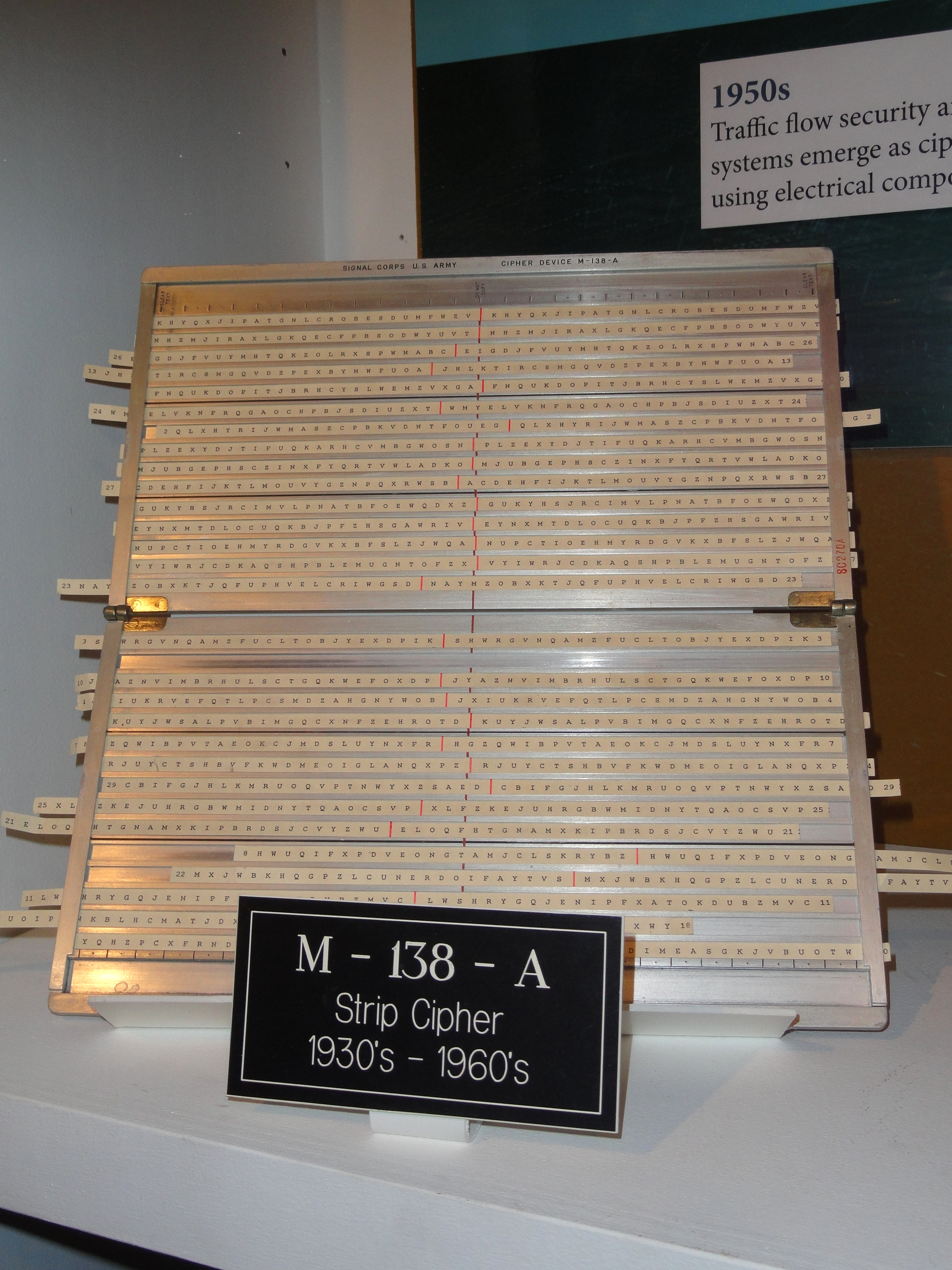 Exhibit in the National Cryptologic Museum, Fort Meade, Maryland, USA. All items in this museum are unclassified; items created by the United States Government are not subject to copyright restrictions.